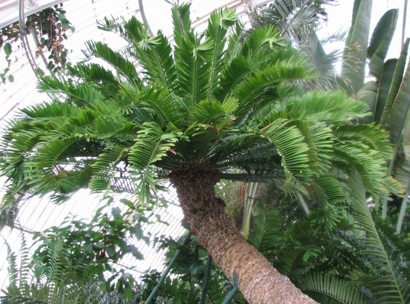 Encephalartos altensteinii Lehm. (Bread Palm). Taken at Palm House, Kew Gardens, (London, UK)